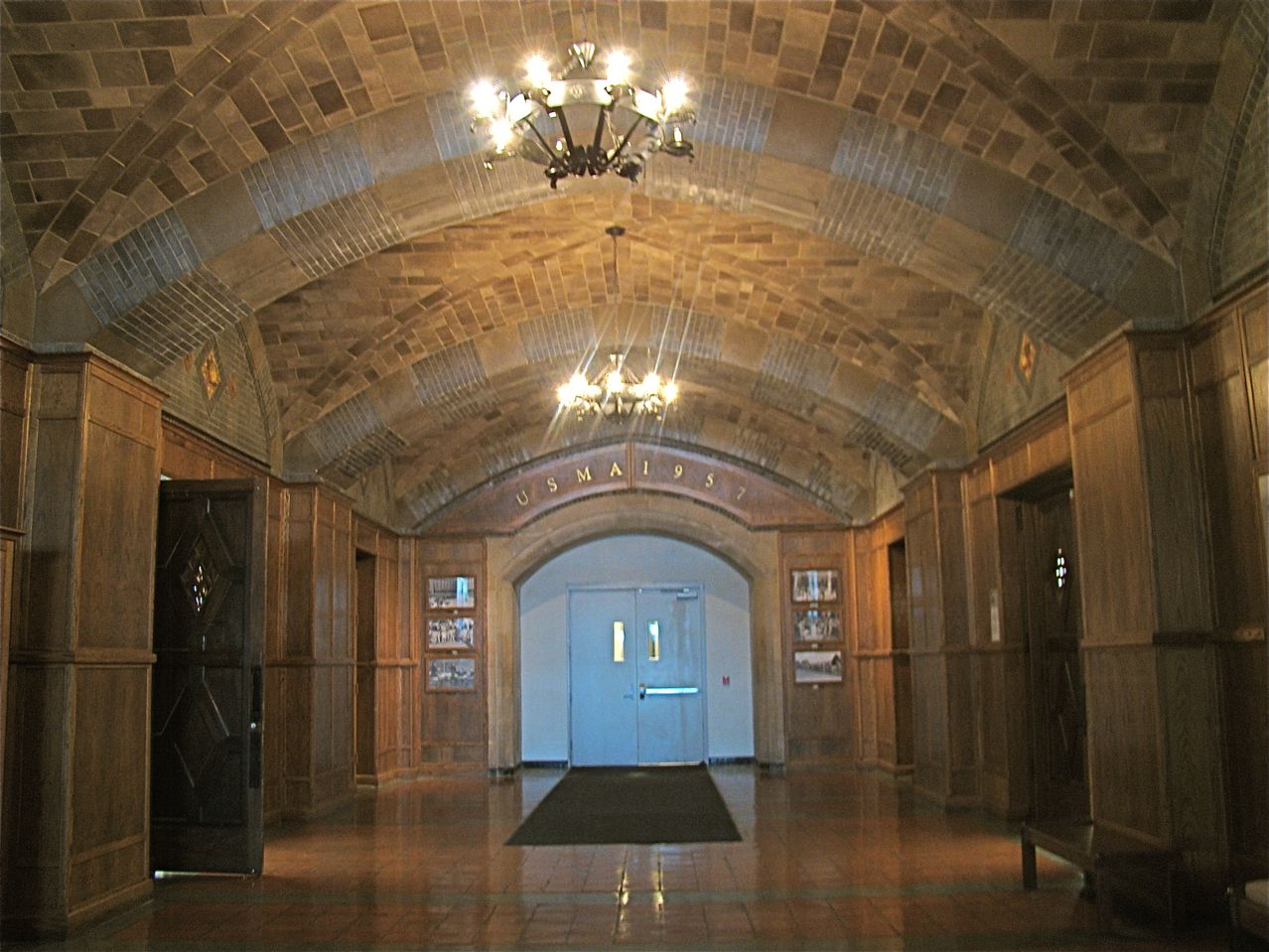 The Class of 1957 Hallway in Hayes Gymnasium, originally built in 1910.